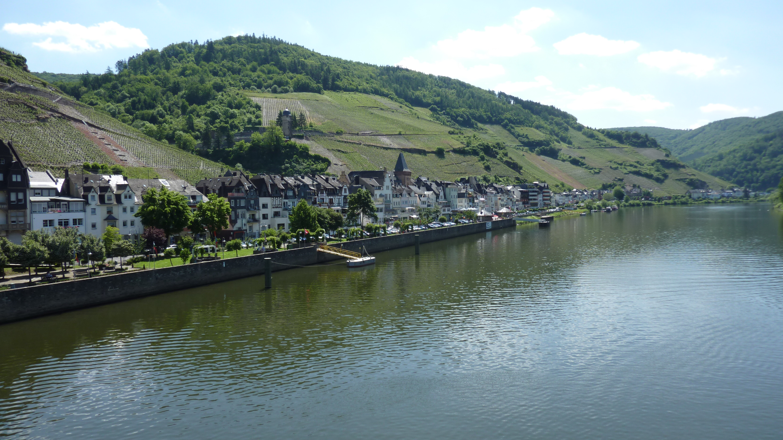 "Zeller Schwarze Katz" viticulture